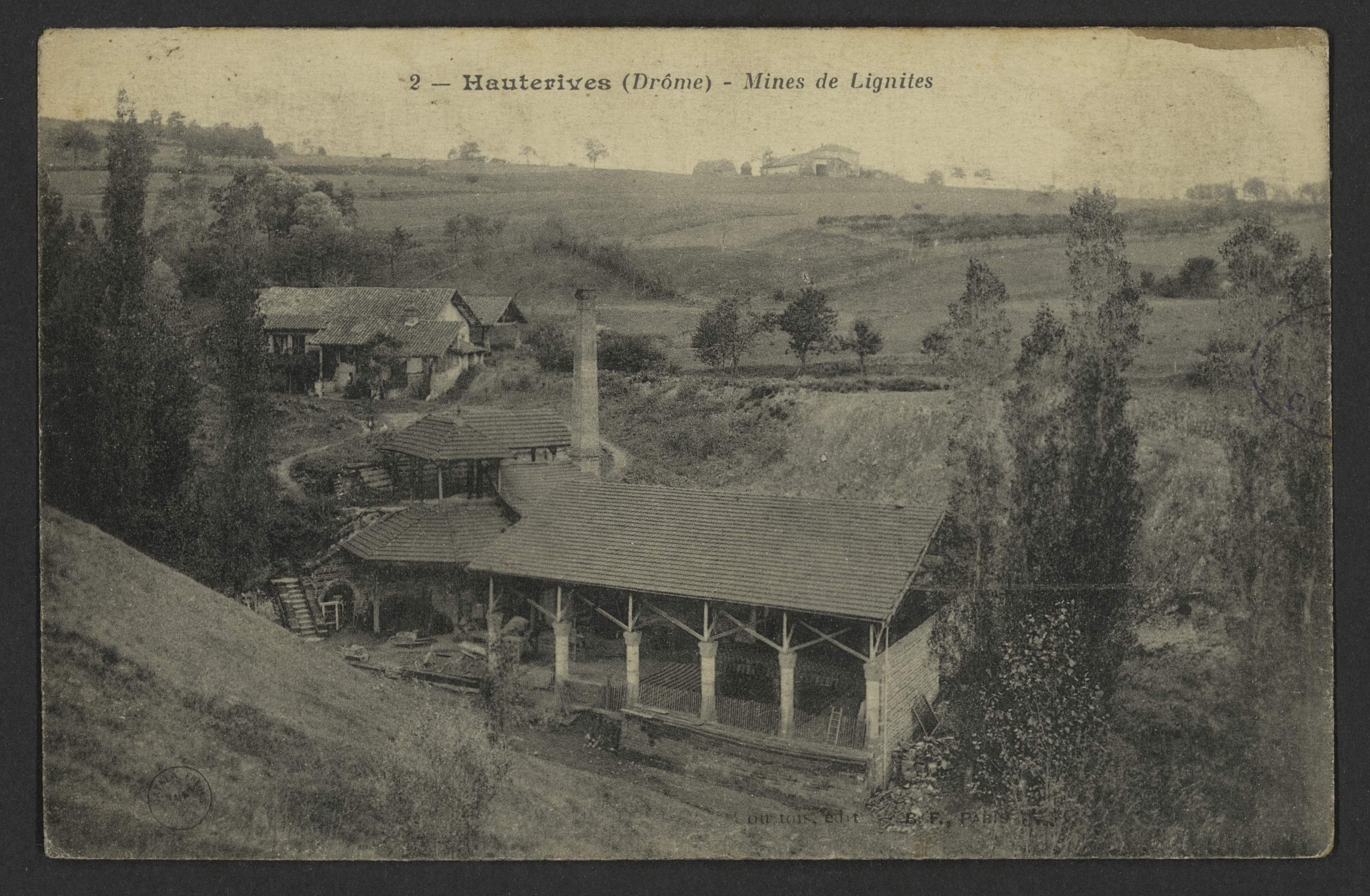 CA 1905 - 1917